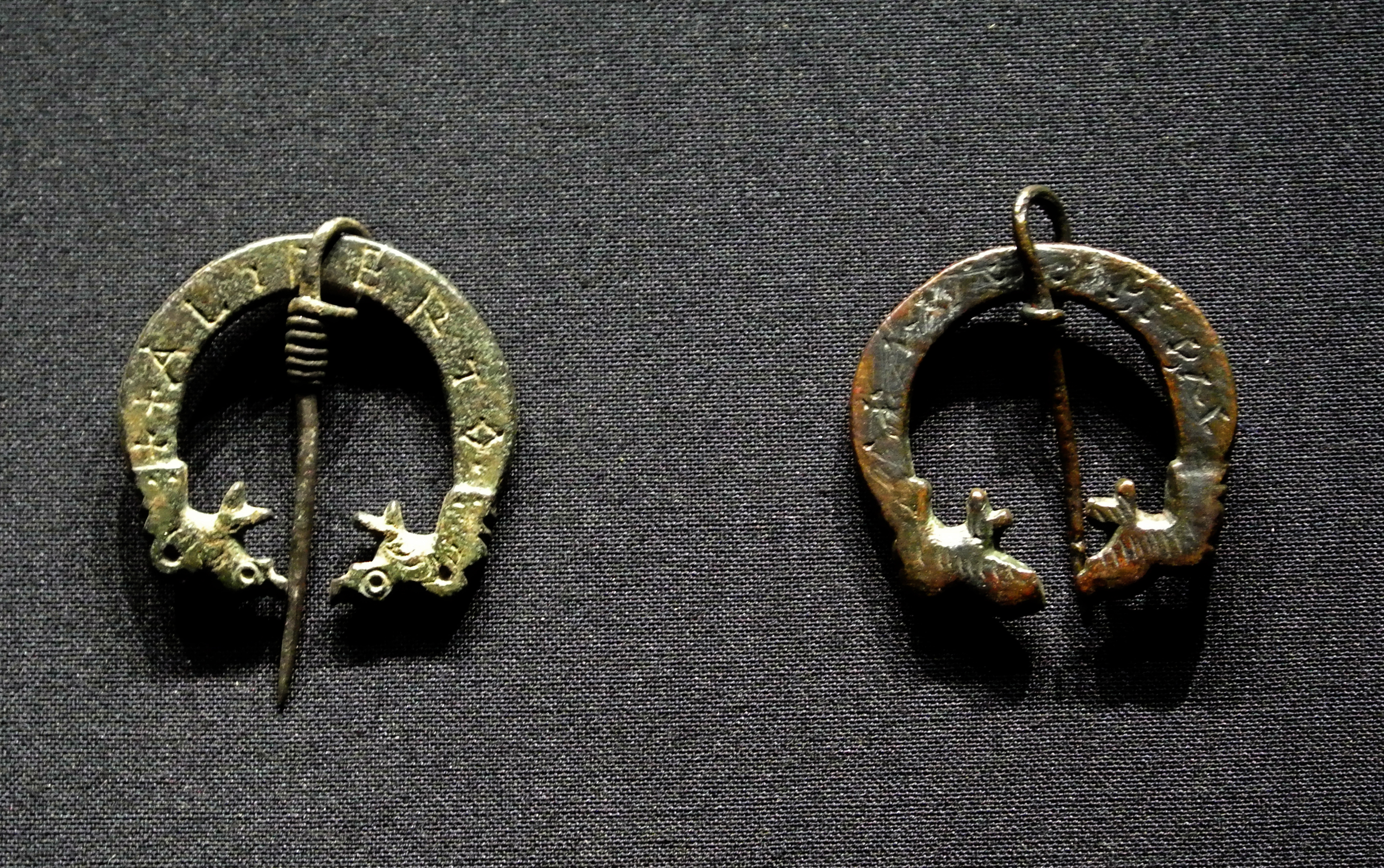 Ring fibulae with inscriptions: ++ALIPERTO (Germanic name) +LVCAS BIBAS ("Lucas, may you live")